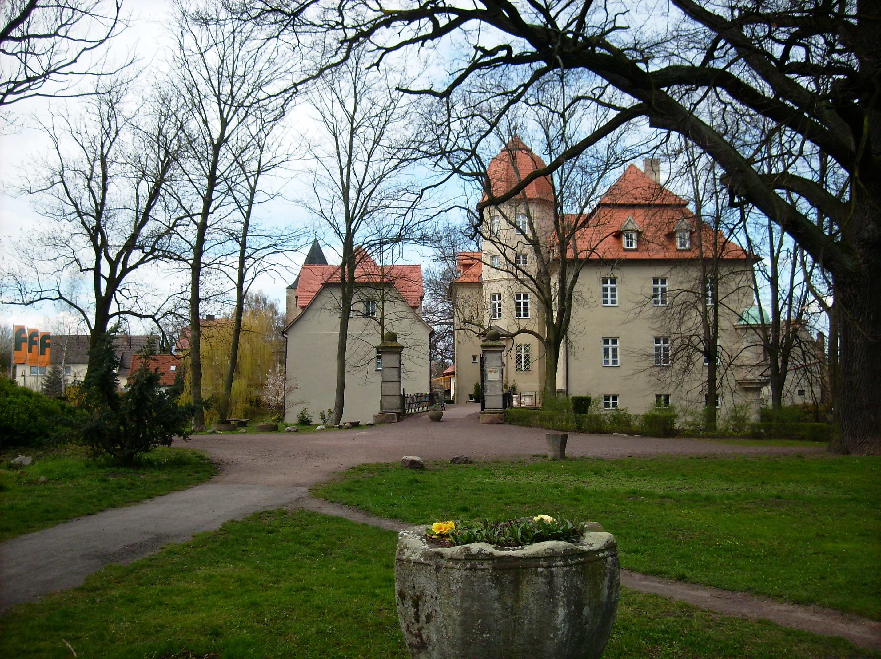 Grosspaschleben manor, view from the parc (Osternienburger Land, Anhalt-Bitterfeld district, Saxony-Anhalt)